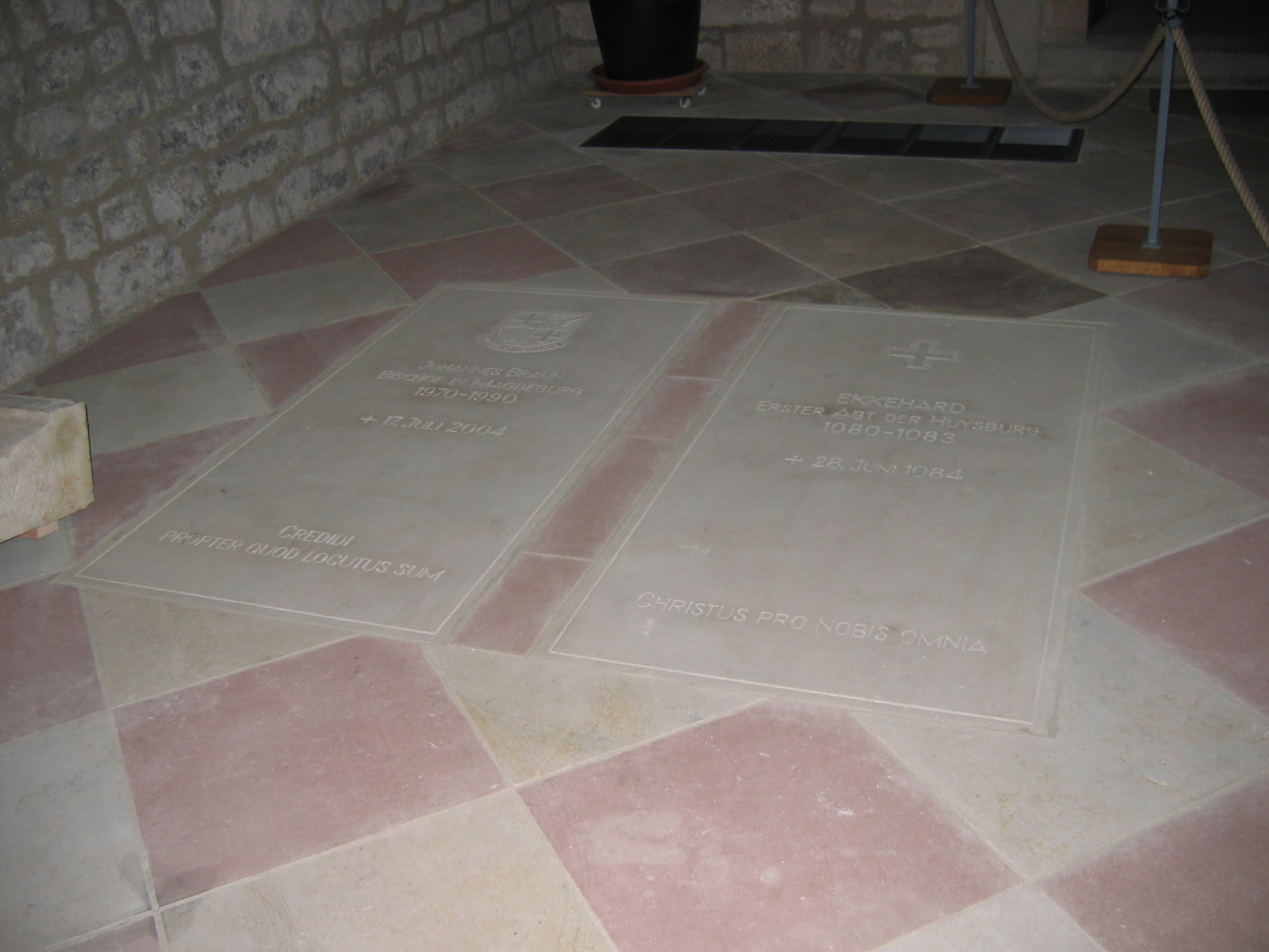 Description: Tomb of Bishop Johannes Braun, Huysburg (near Halberstadt), Germany Source: own work Photographer: ads Date of photography: 2006-09-03